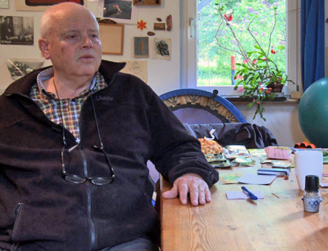 a:de:Thomas Bayrle|Thomas Bayrle . Still image from the 2010 documentary "The Future of Art" by Erik Niedling and Ingo Niermann.